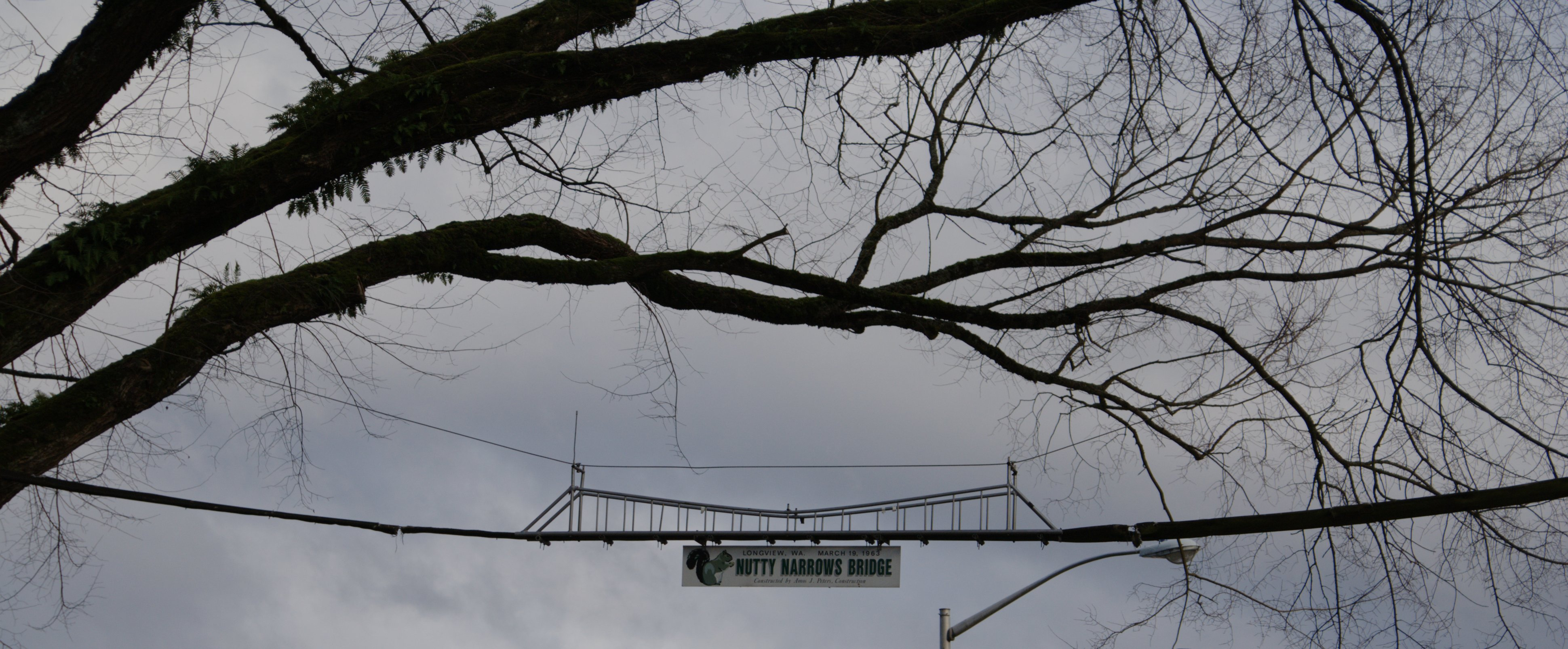 A bridge for squirrels. Who knew. Nutty Narrows Bridge